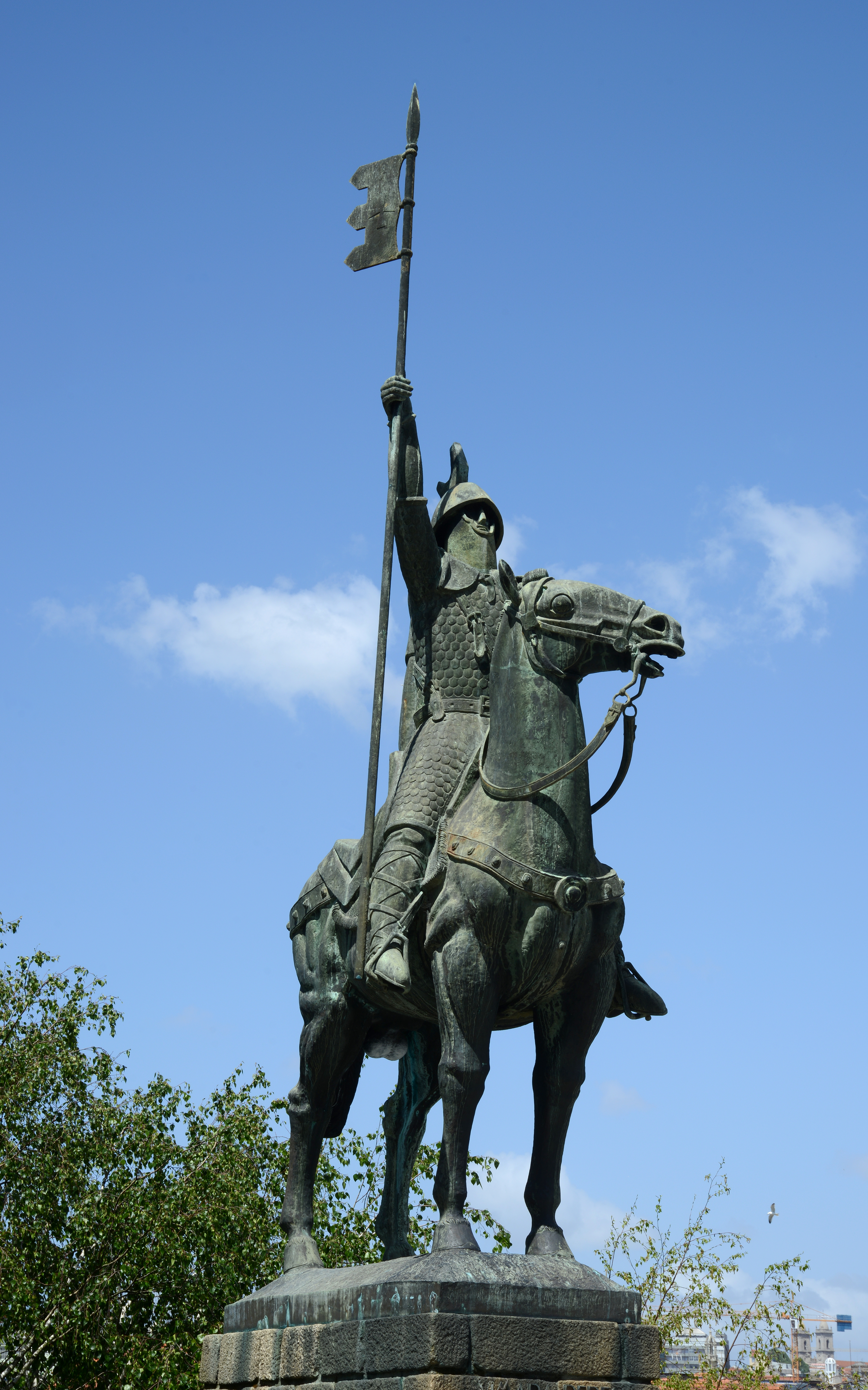 Statue of count Vímara Peres, the first ruler of the County of Portugal (9th century)